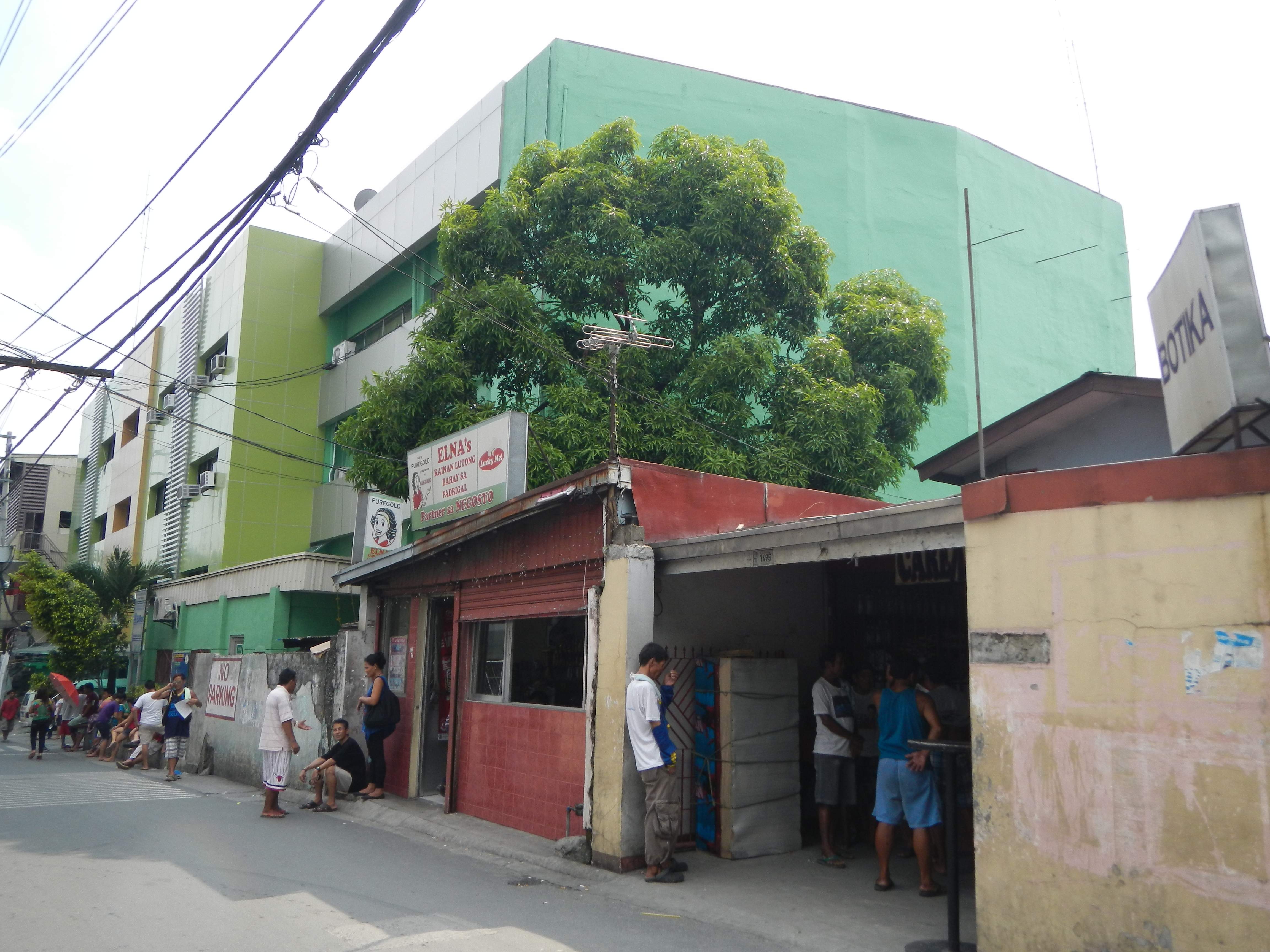 From Valenzuela City General Hospital, beside the Hall of Barangay Karuhatan, Valenzuela Valenzuela City, is the Welcome painted wall sign of Barangay Gen. T. de Leon, Valenzuela City: Centro or Barangay Proper: landmark is the Gen. T. de Leon National High School, Mercado St. cor. Gen. T. de Leon Rd., Barangay Gen. T. de Leon, Valenzuela City, Metro Manila, 1442 Philippines, named after Tiburcio de León General Aquilino Tiburcio de León y Gregorio Tolomeo).